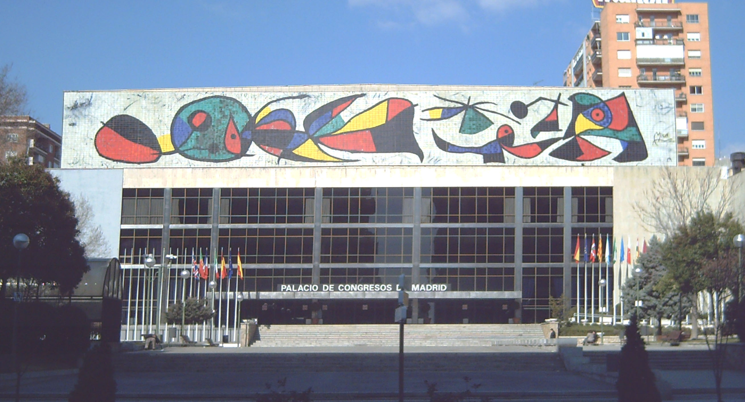 Palacio de Congresos y Exposiciones. Convention centre in Madrid (Spain). Projected by architect Pablo Pintado Riba and built from 1965 to 1970. Mural was made in 1980 by Joan Miró (1893–1983).